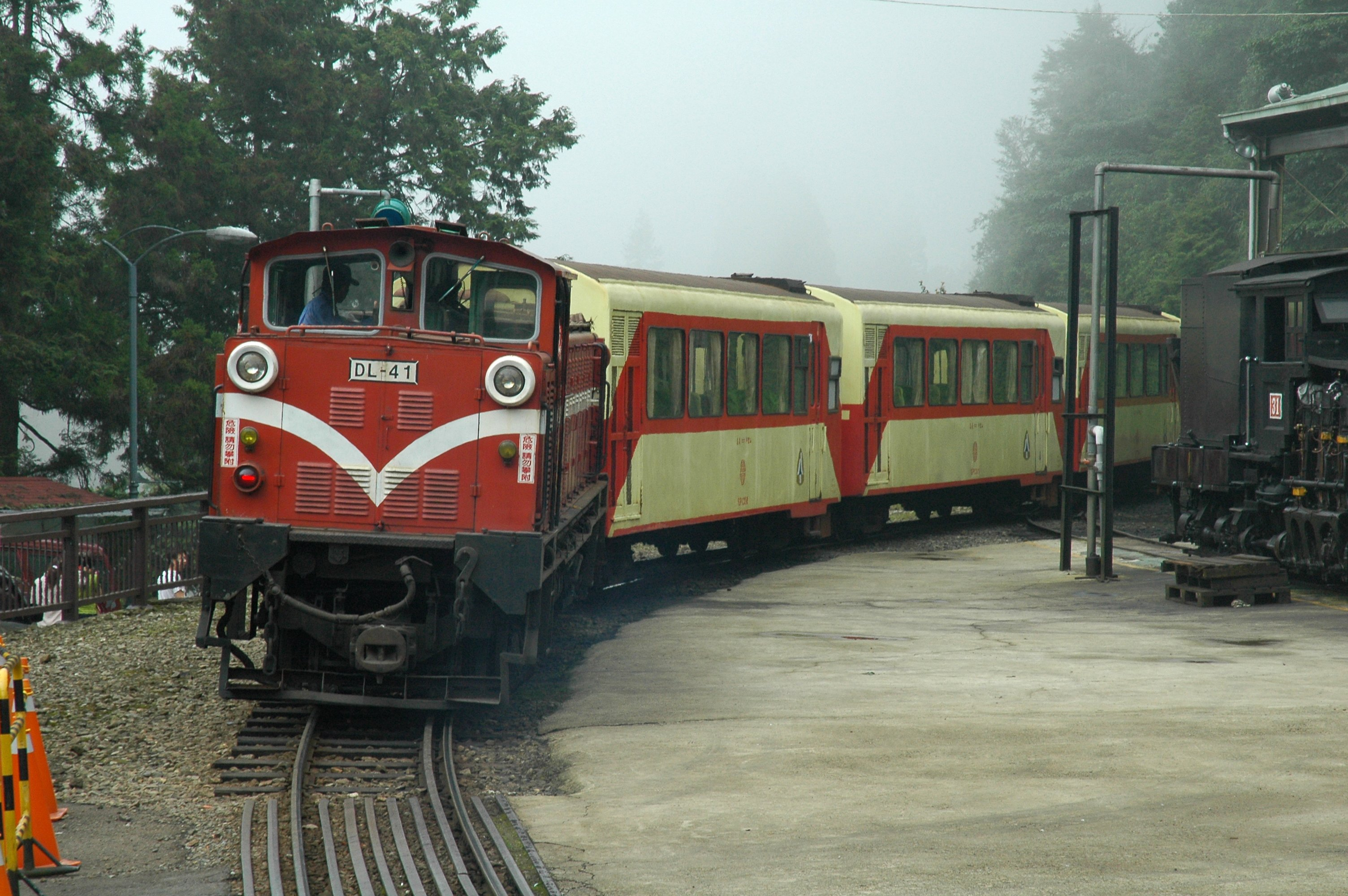 Train pulling into Alishan station -- by jpatokal 阿里山駅に進入する阿里山号列車 Photo by Jpatokal